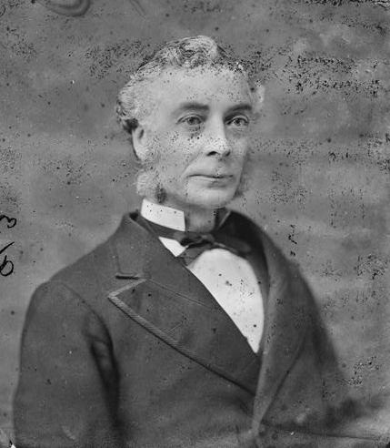 Andrew Williams (congressman).